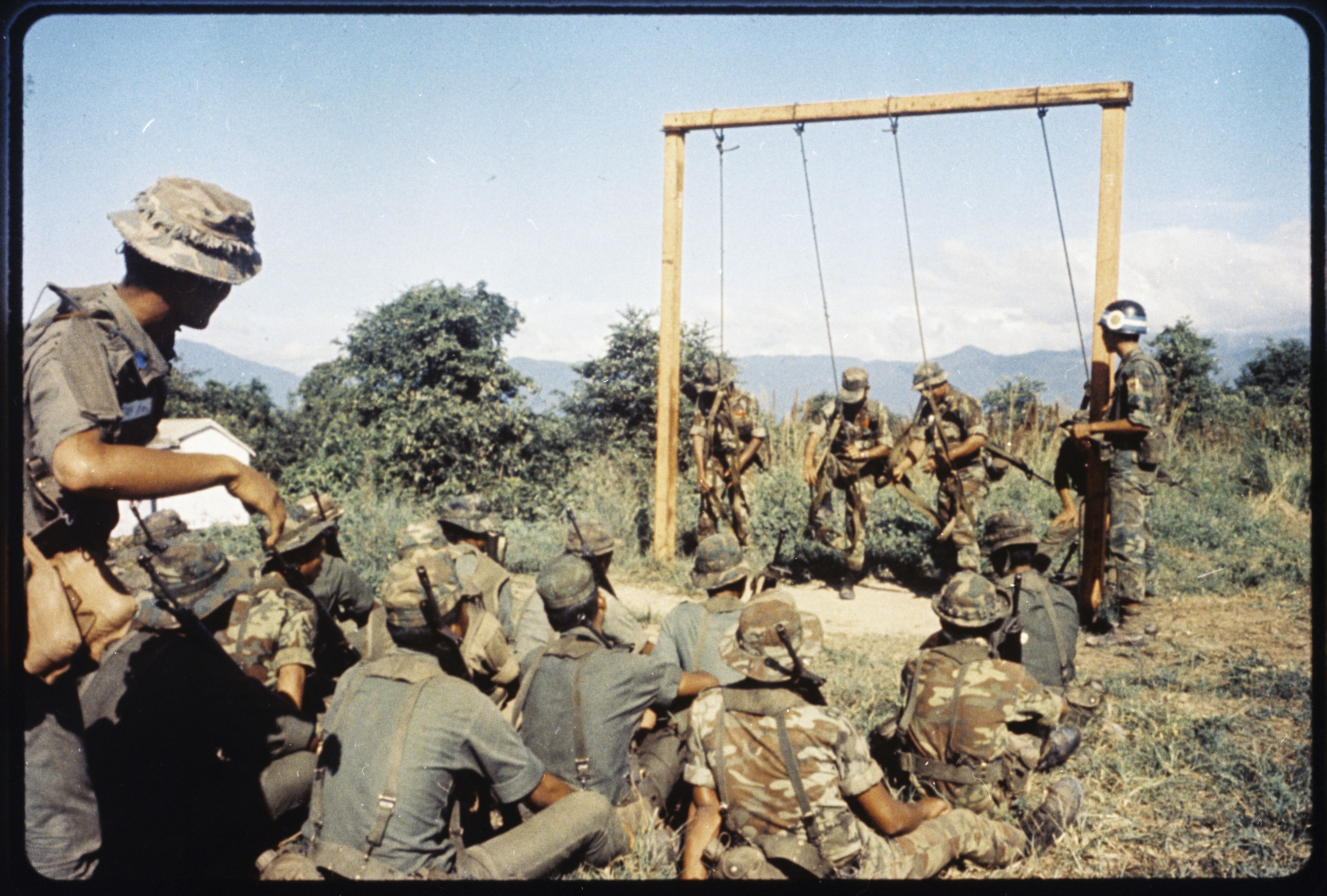 Okinawa Army Base, Japan, December 1971.